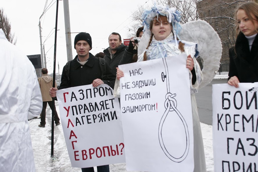 Kateryna Chepura in action of "Remember about gas — do not buy Russian goods!" campaign near Embassy of Russia in Kyiv, Ukraine.